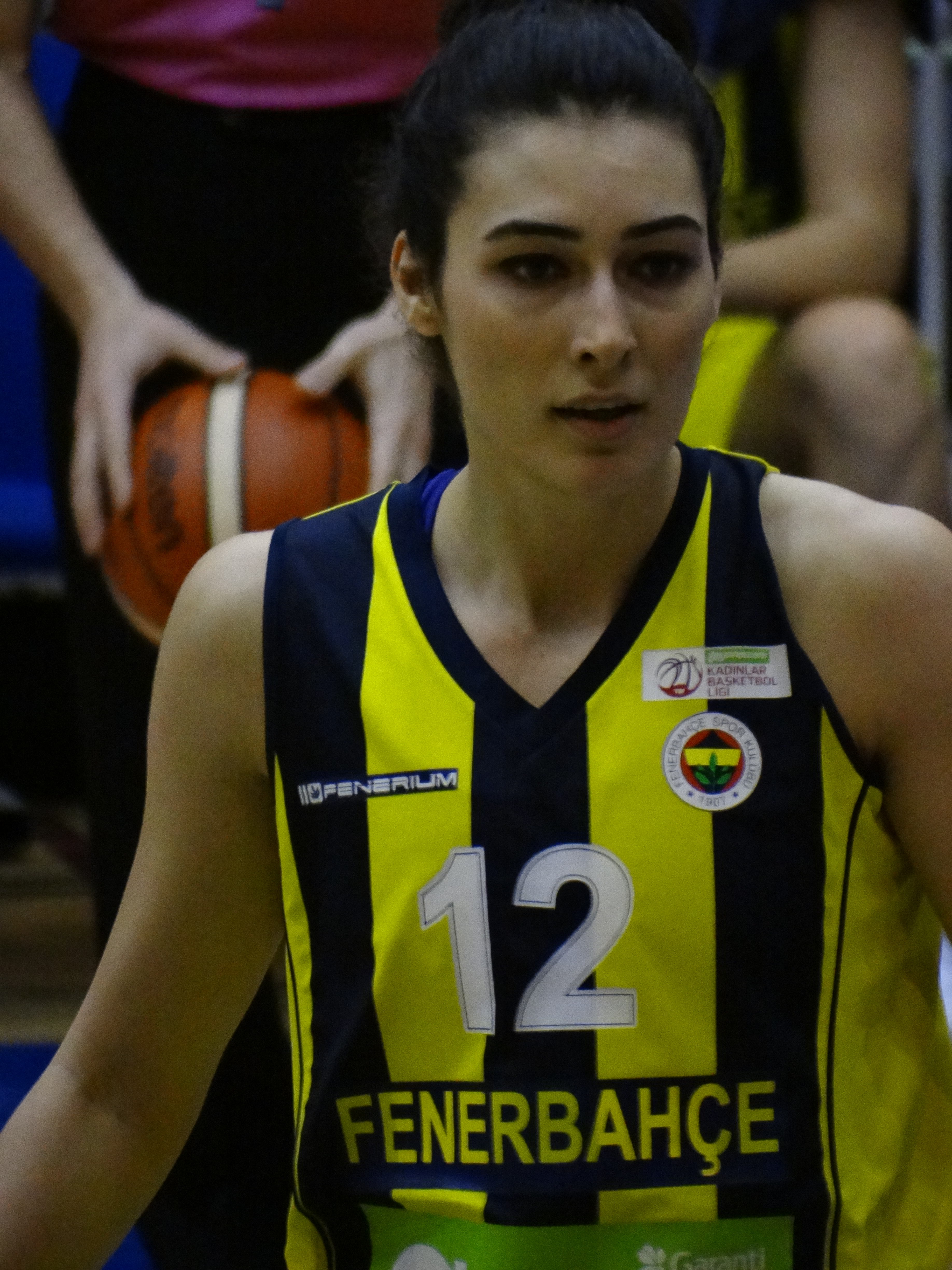 Tuğçe Canıtez Fenerbahçe Women's Basketball vs Mersin Büyükşehir Belediyesi (women's basketball) TWBL 20180121